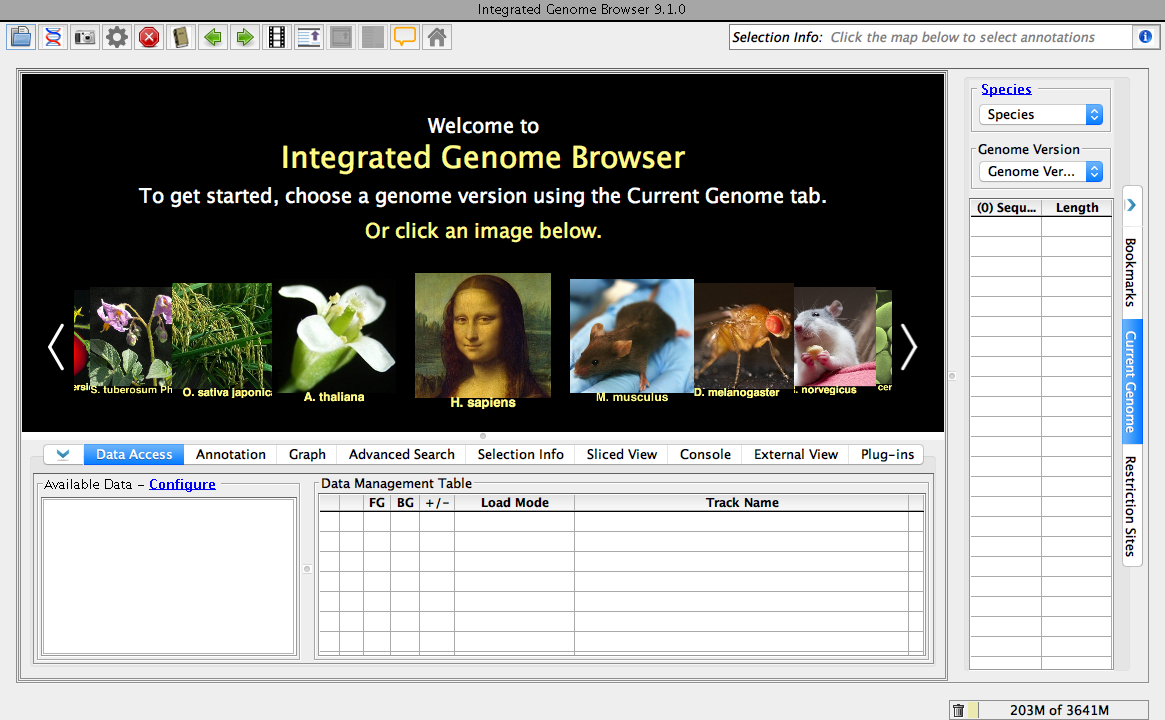 Integrated Genome Browser version 9.1.0 start screen with clickable images shortcuts leading to genome sequence assembly versions used by scientists and citizens to understand genome sequence, published data, genes, and user-generated data.